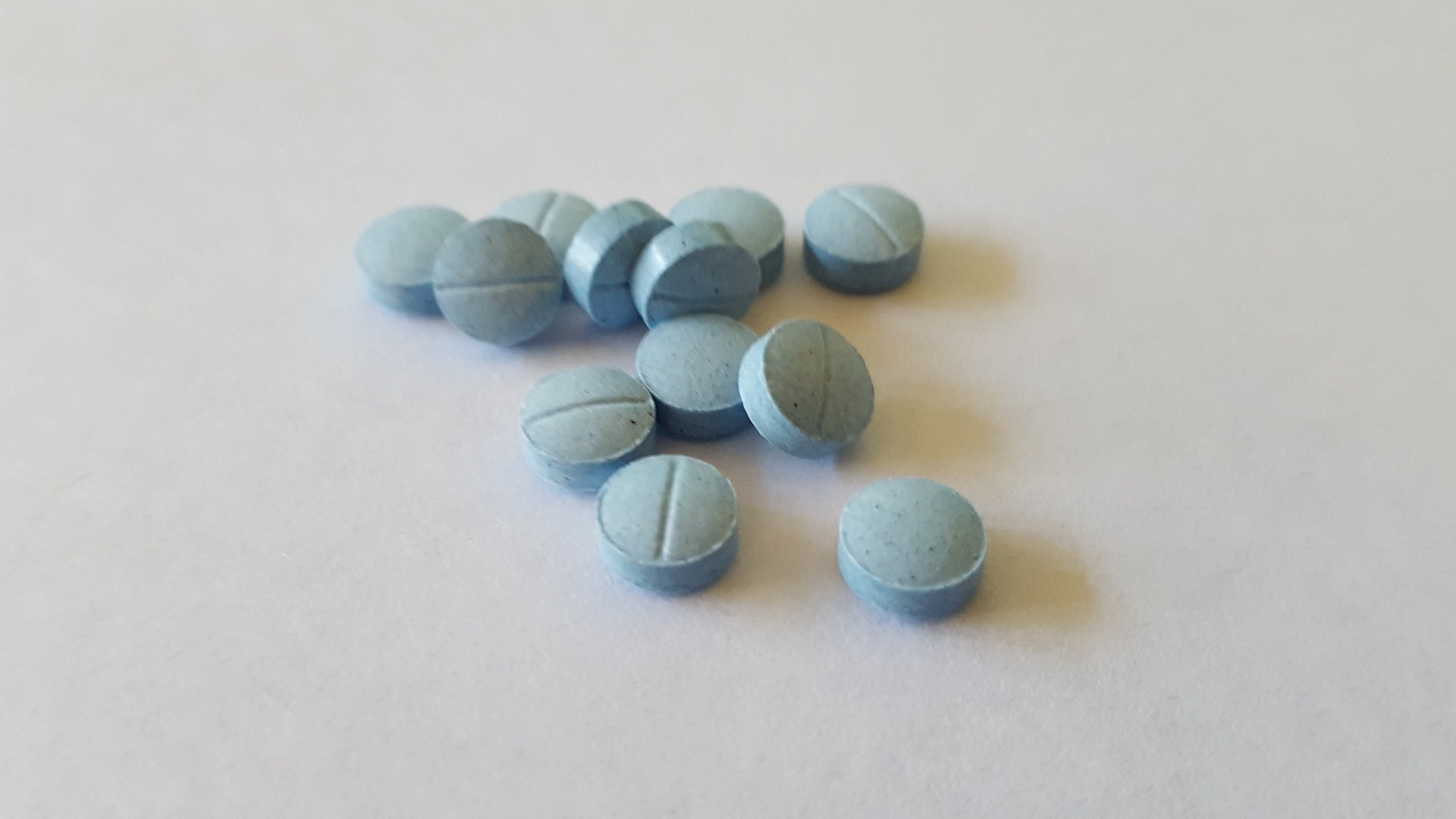 Etizolam is a benzodiazepine analog which is marketed under a significant number of brand names, and has recently been used for recreational purposes.